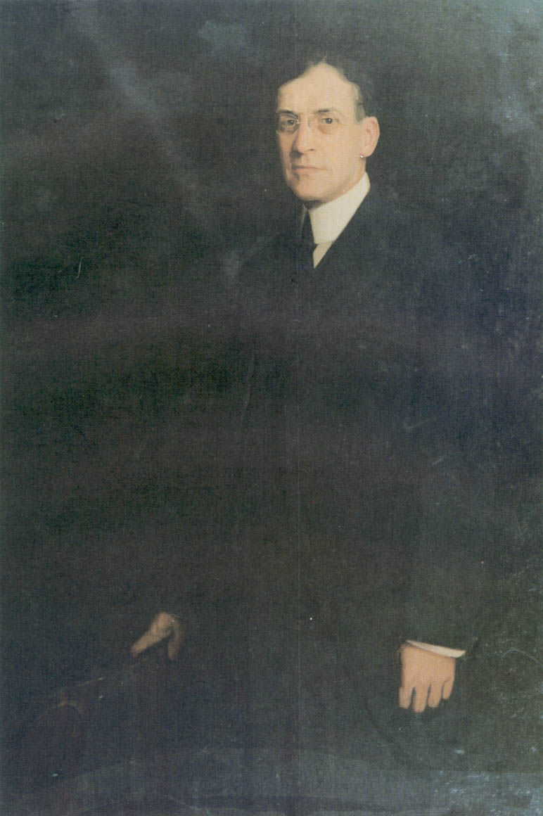 Newton D. Baker, 47th United States Secretary of War. Oil on canvas, 53½" x 34½".